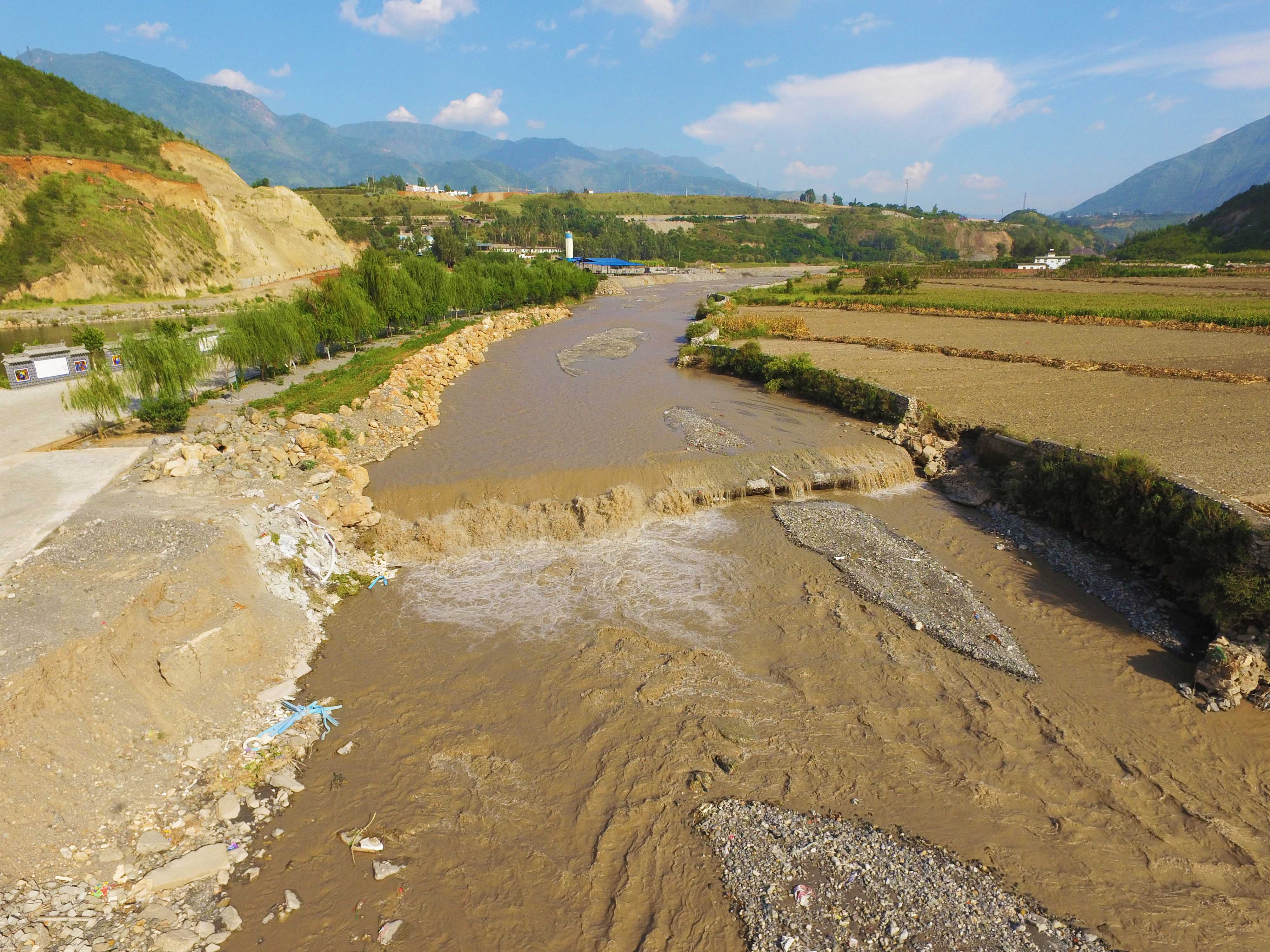 Xiaojiang River near Sanjiangkou in Dongchuan